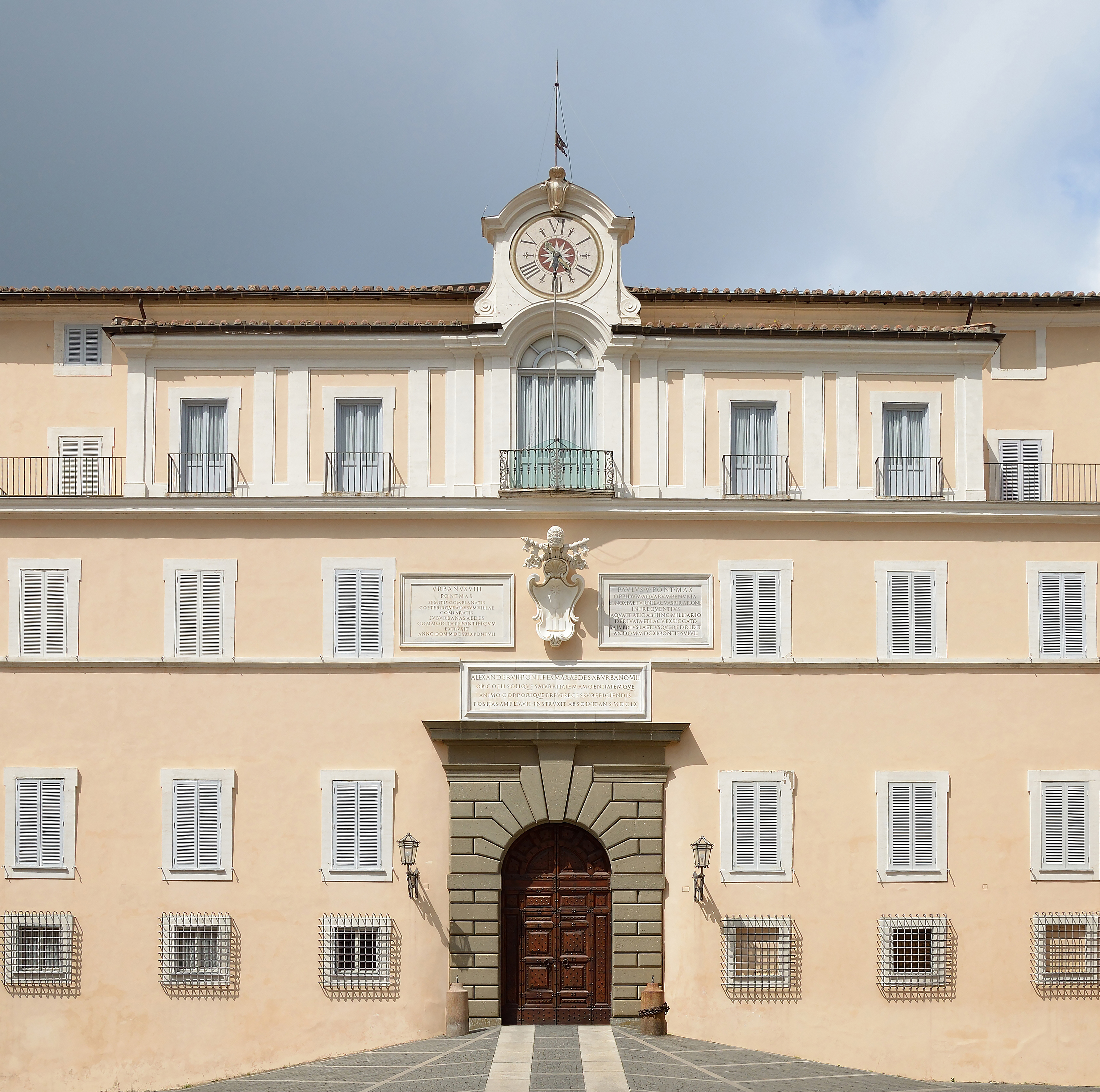 Pontifical Palace (Castel Gandolfo)